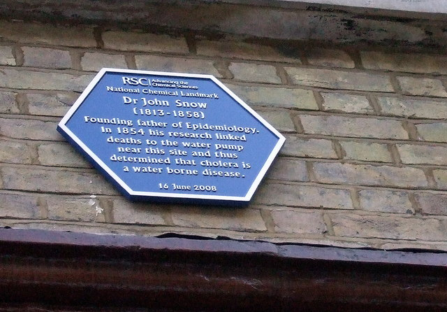 National Chemical Landmark: Dr John Snow On the pub of this name in Broadwick (formerly Broad) Street, Soho.